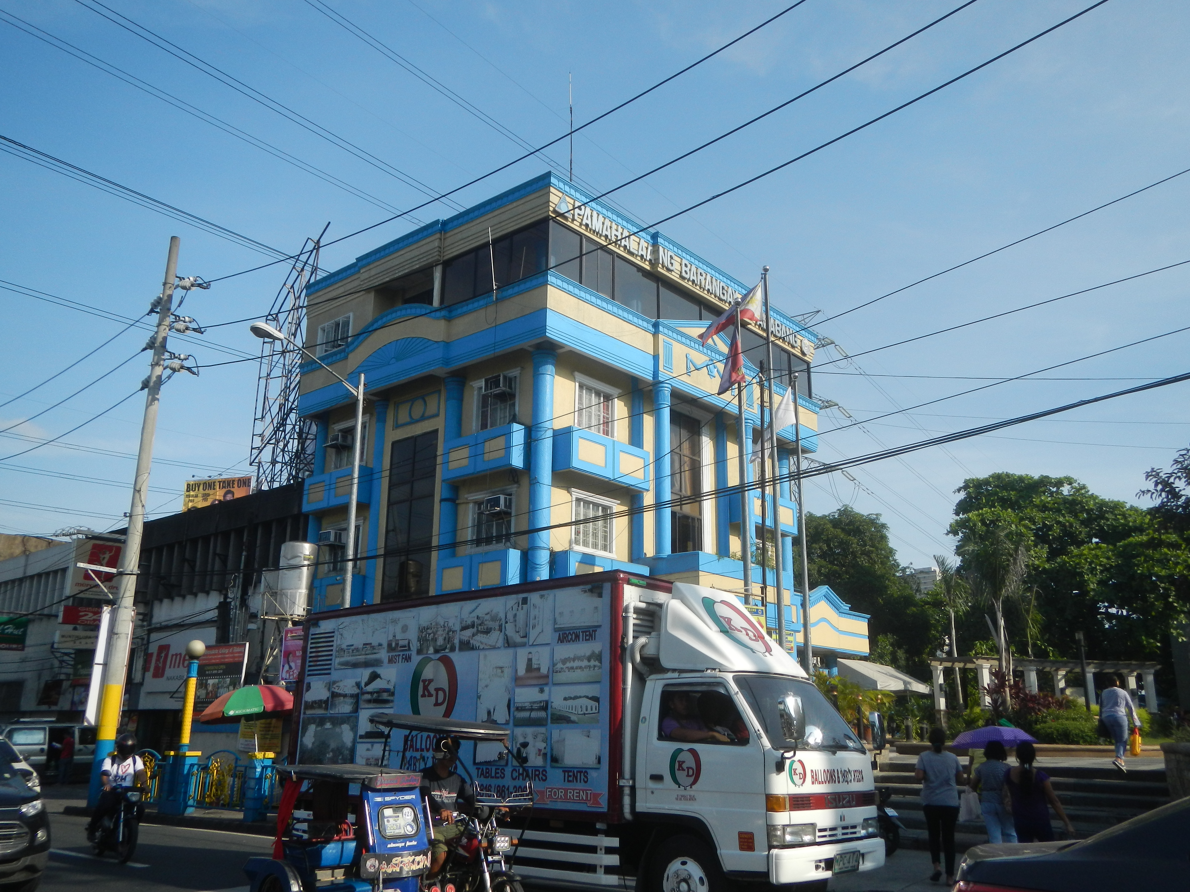 Alabang - Montillano Footbridge - Liwasan ng mga Bayani, Muntinlupa City South Station - Alabang Crimson Hotel - Alabang Alabang-Zapote Road and North Bridgeway (Filinvest City, Northgate, Alabang, Muntinlupa City) Aeon Center (Alabang, Muntinlupa City) The Bellevue (Alabang, Muntinlupa City) Capital One (Filinvest City, Northgate, Alabang, Muntinlupa City) Southkey Place (Filinvest City, Northgate, Alabang, Muntinlupa City) West Service Road (Alabang, Muntinlupa City) Filinvest Barangays Alabang 14°24'59"N 121°2'33"E Cupang 14°26'1"N 121°2'16"E City of Muntinlupa Alabang–Zapote Road Philippine highway network (Note: Judge Florentino Floro, the owner, to repeat, Donor Florentino Floro of all these photos hereby donate gratuitously, freely and unconditionally Judge Floro all these photos to and for Wikimedia Commons, exclusively, for public use of the public domain, and again without any condition whatsoever).